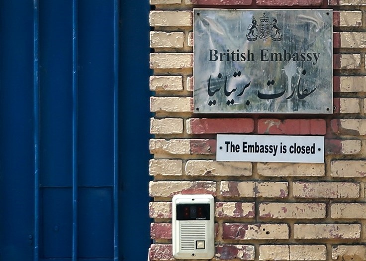 British Embassy, Tehran before reopening